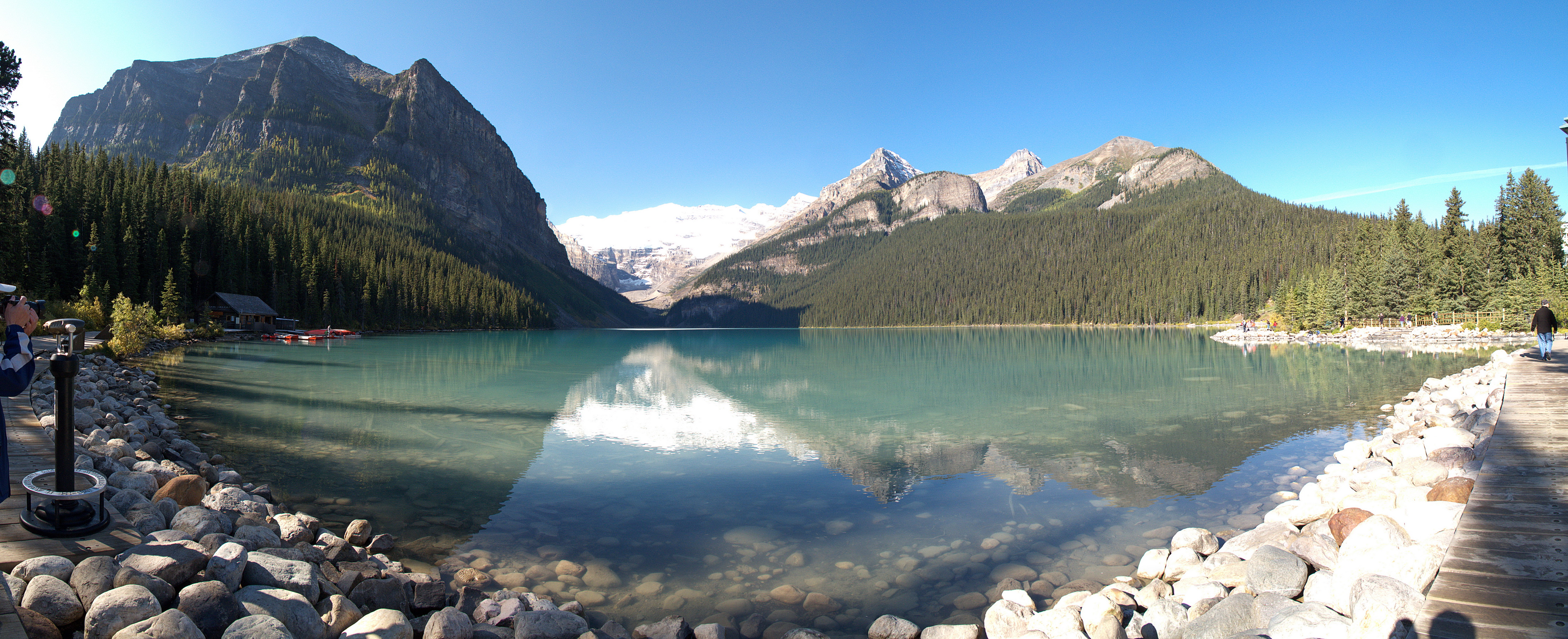 Panoramic view of Lake Louise and the glacier from northern shoreline